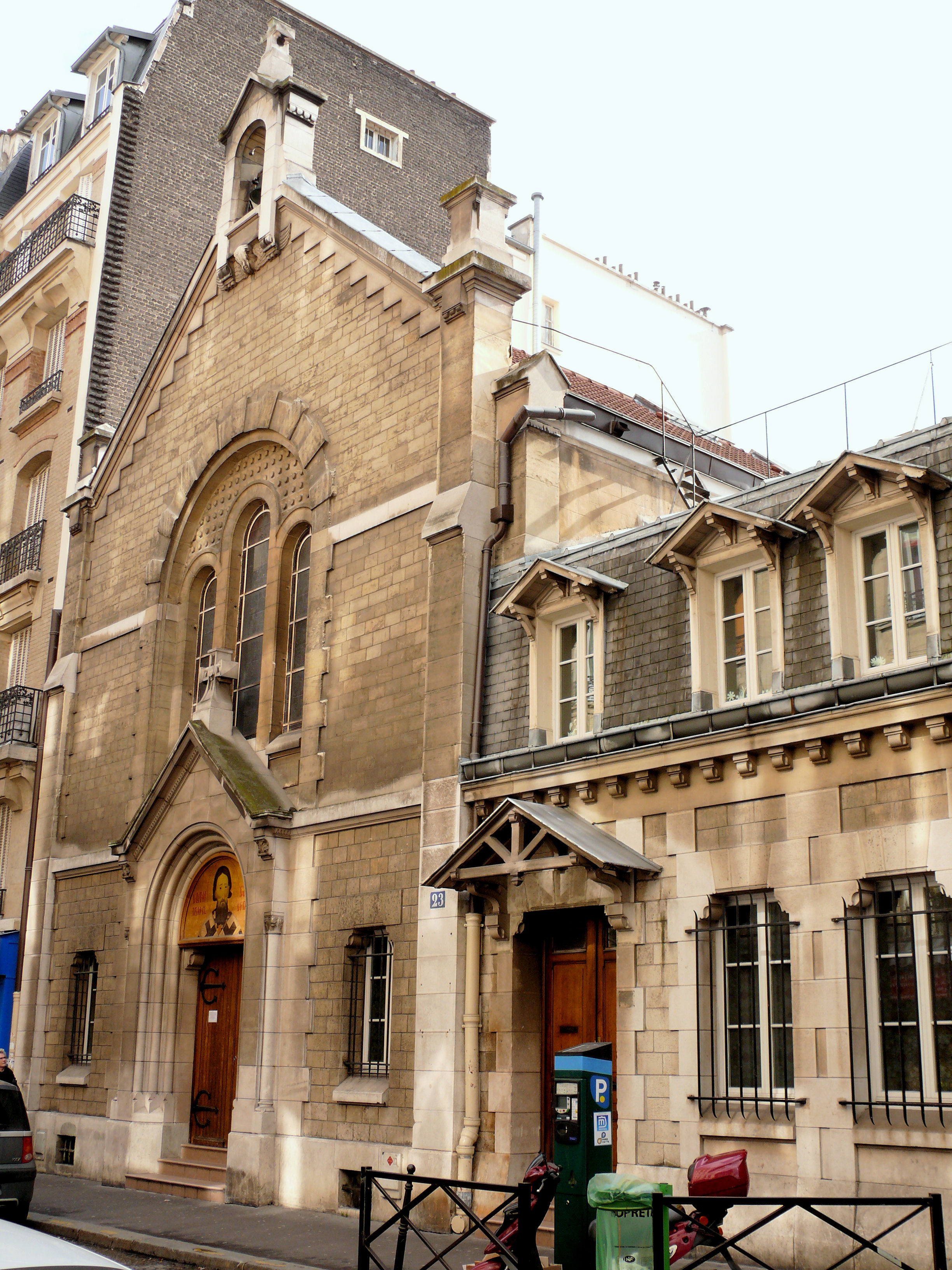 St. Sava Church in Paris - Ensemble view